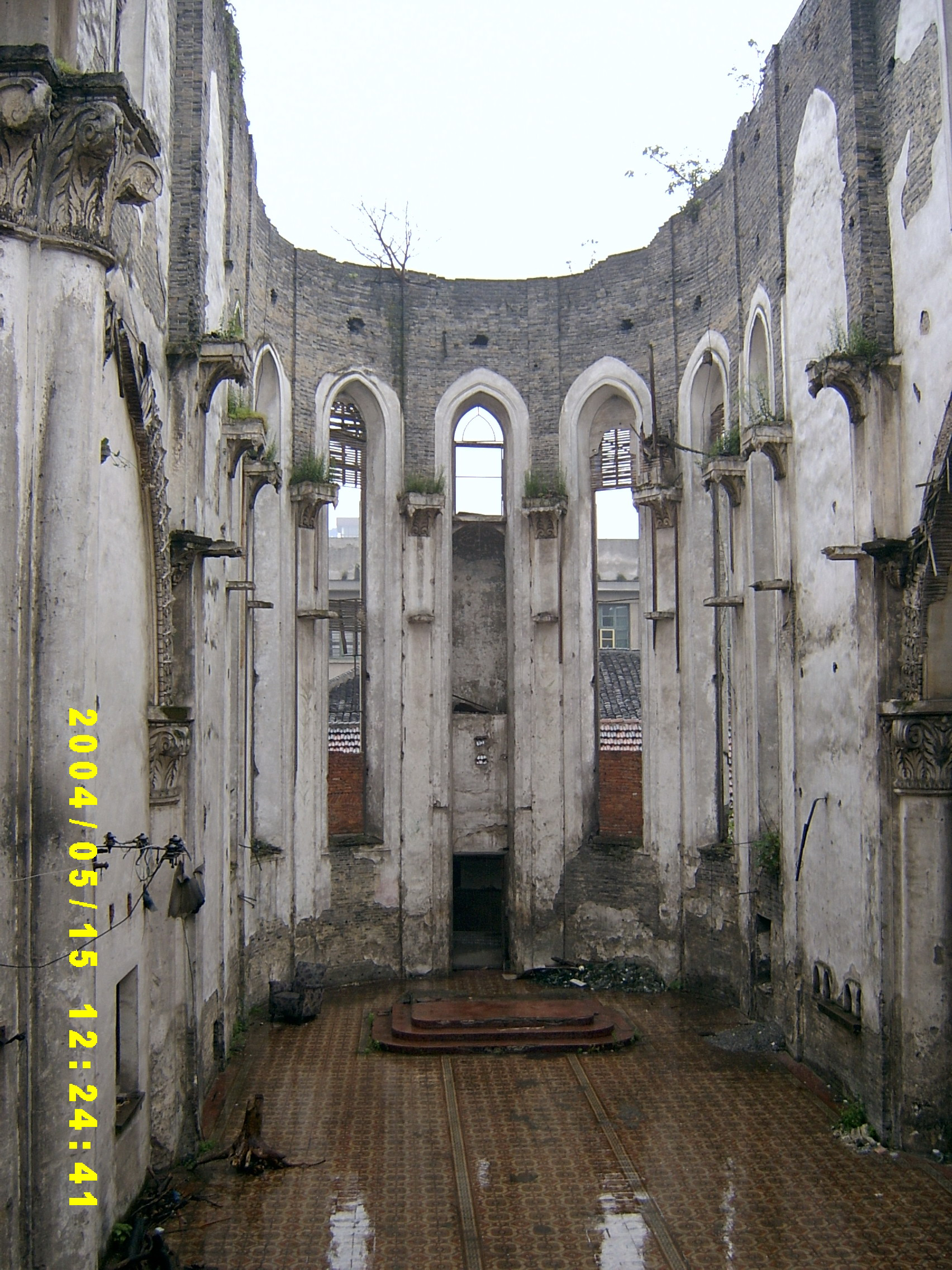 Church(Altar),jiaxing,zhejiang,china